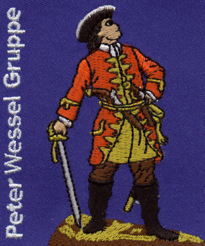 Uniform patch for the "Peter Wessel Group" Scouts in Denmark